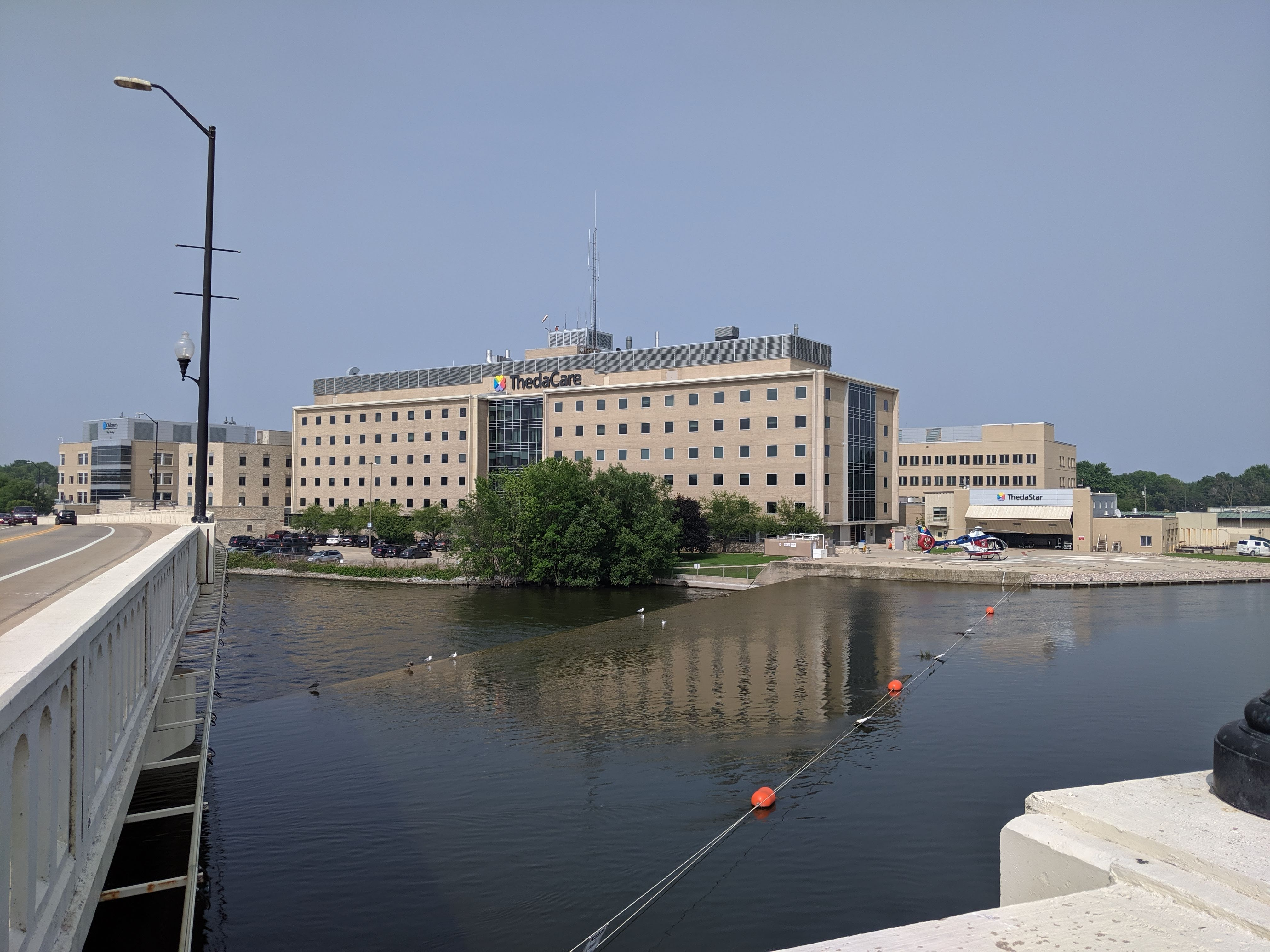 View of ThedaCare Regional Medical Center–Neenah in Neenah, Wisconsin. Taken from the G Bryan Bridge.